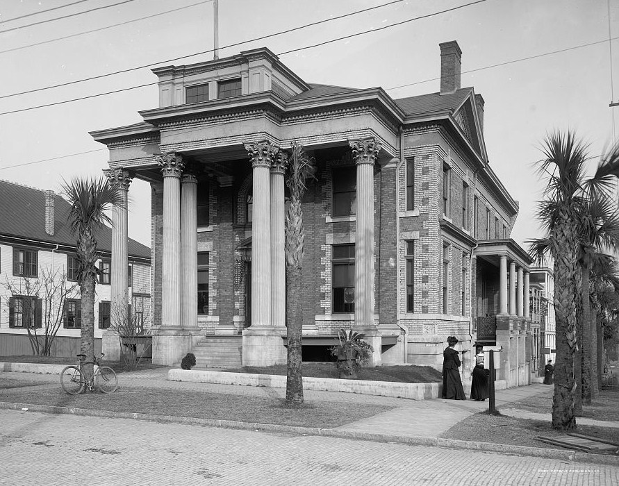 Elks' Club, Jacksonville (Duval County, Florida) This work is from the Detroit Publishing Co. collection at the Library of Congress. According to the library, there are no known copyright restrictions on the use of this work.Most of the images in this collection were published before 1925 and are therefore in the public domain in the United States. A few images were published after this date and may be restricted by copyright. This work is in the public domain in its country of origin and other countries and areas where the copyright term is the author's life plus 100 years or fewer. You must also include a United States public domain tag to indicate why this work is in the public domain in the United States. This file has been identified as being free of known restrictions under copyright law, including all related and neighboring rights.